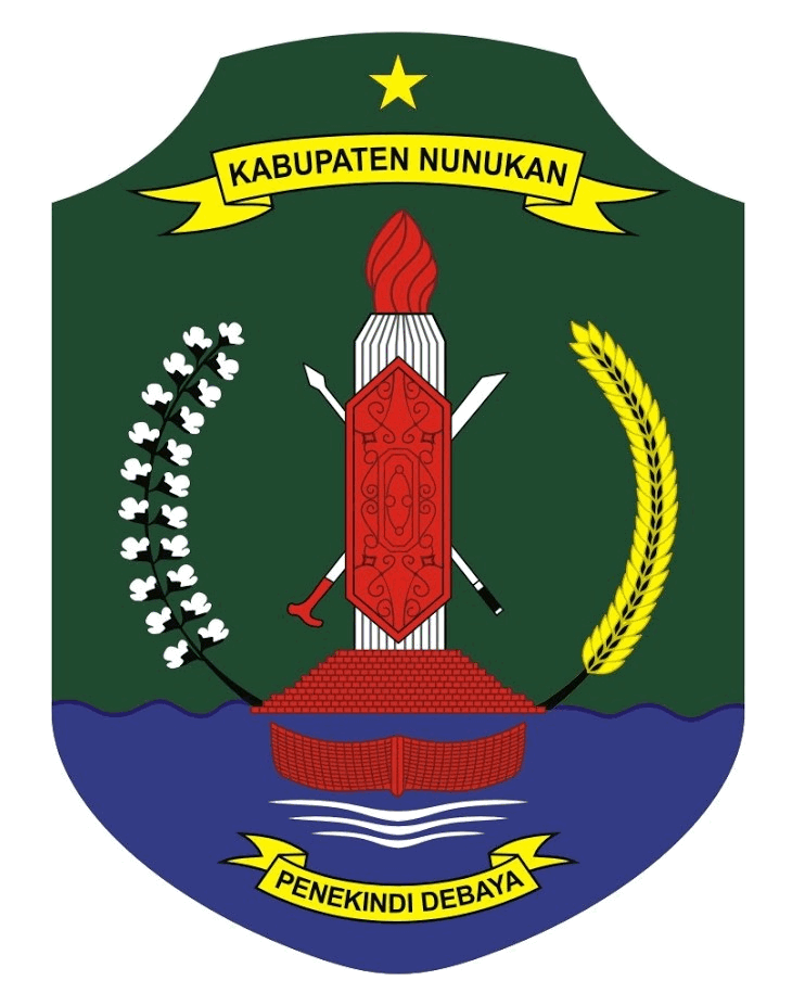 Lambang (Coat of Arms) of Kabupaten (Regency) Nunukan, Provinsi Kalimantan Timur (East Kalimantan Province, on island Borneo/Kalimantan in id), Indonesia